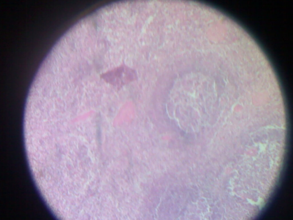 Histology of a lymph node